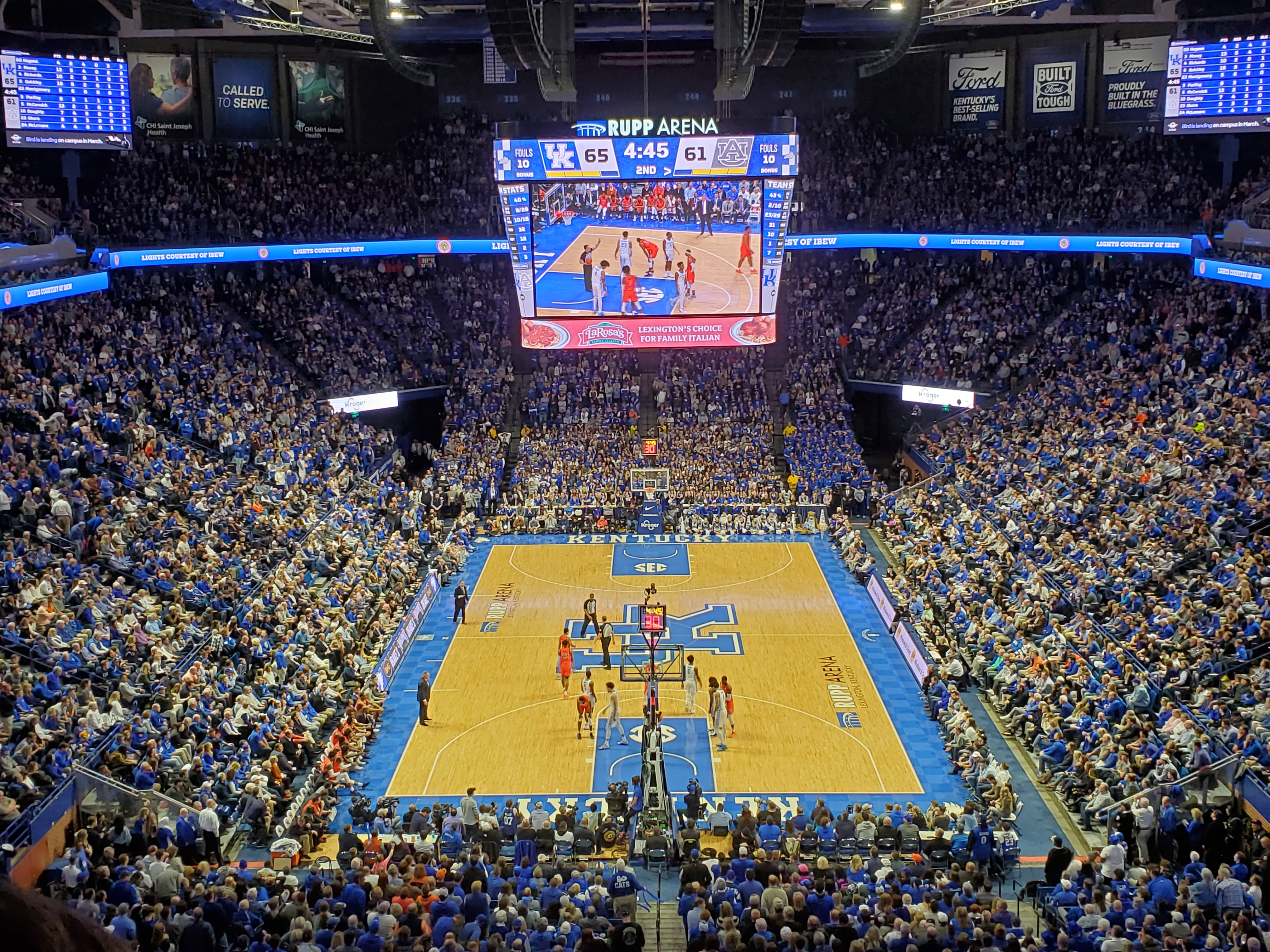 Rupp Arena in Lexington, Kentucky on February 29, 2020, during a baskeball game against Auburn University